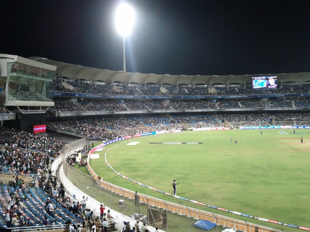 IPL match at DY Patil Stadium